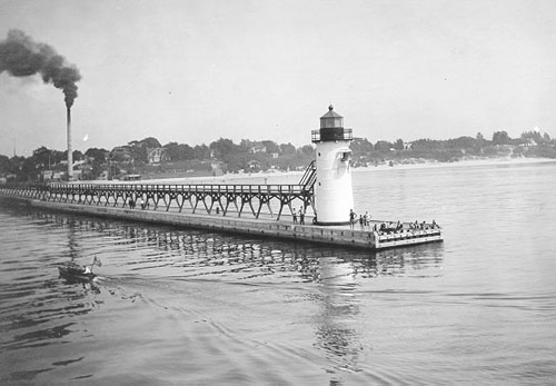 Public Domain statement here; The South Haven South Pierhead Light is a lighthouse in Michigan, at the entrance to the Black River on Lake Michigan. The station was established in 1872, and is still operational. The tower is a shortened version of the Muskegon South Pierhead Light, and replaced an 1872 wooden tower. The catwalk is original and still links the tower to shore: it is one of only four that survive in the State of Michigan.